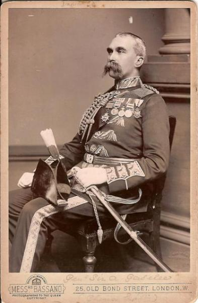 Portrait of General Sir Alfred Gaselee